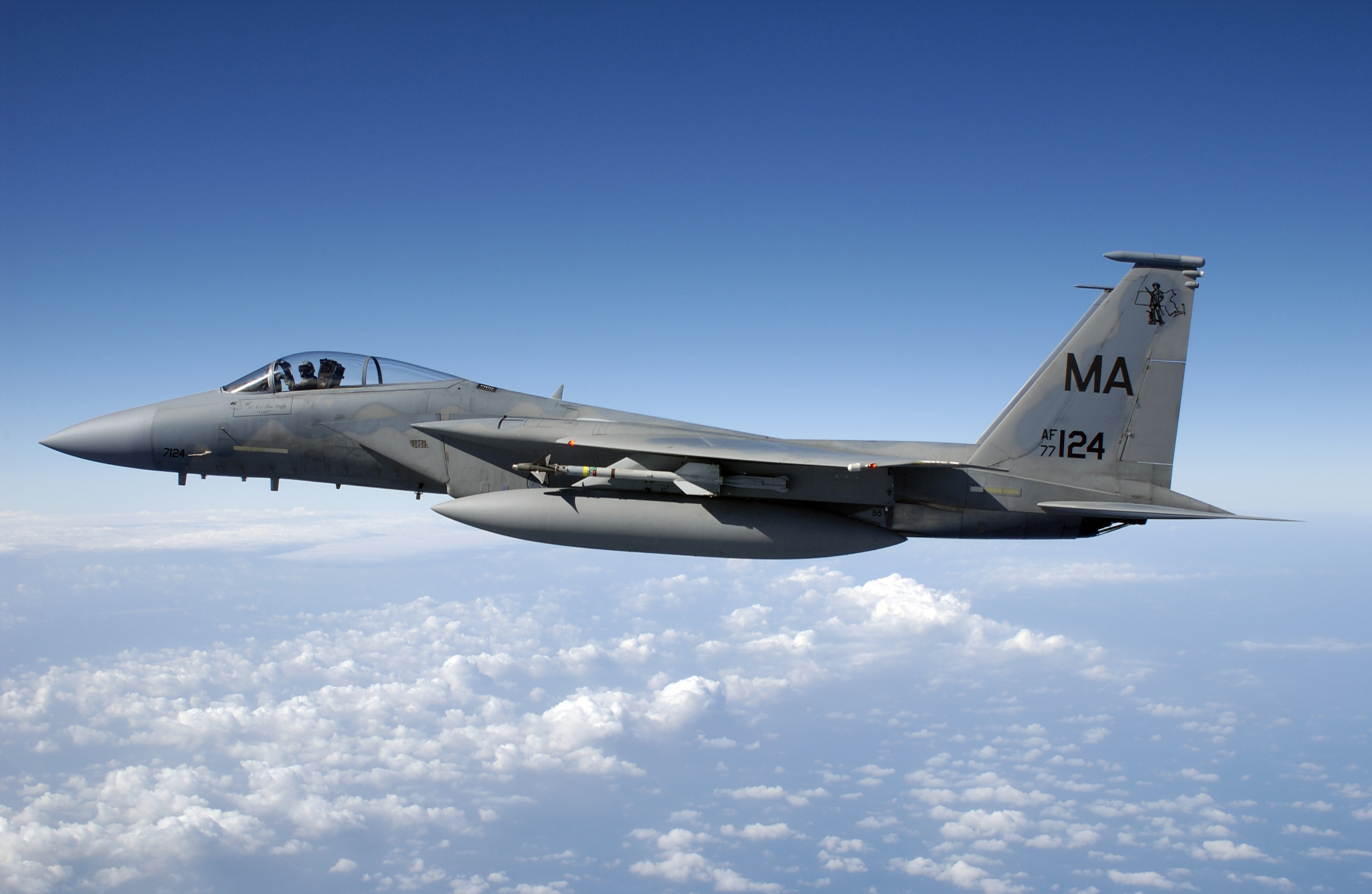 A U.S. Air Force F-15A Eagle, 101st Fighter Squadron, 102nd Fighter Wing, Otis Air National Guard Base, Mass., prepares to fire an AIM-9 Sidewinder heat-seeking air-to-air missile at a an aerial target drone over the gulf of Mexico, Feb. 17, 2005. The plane was eventually assigned to AMARC on June 27, 2006.